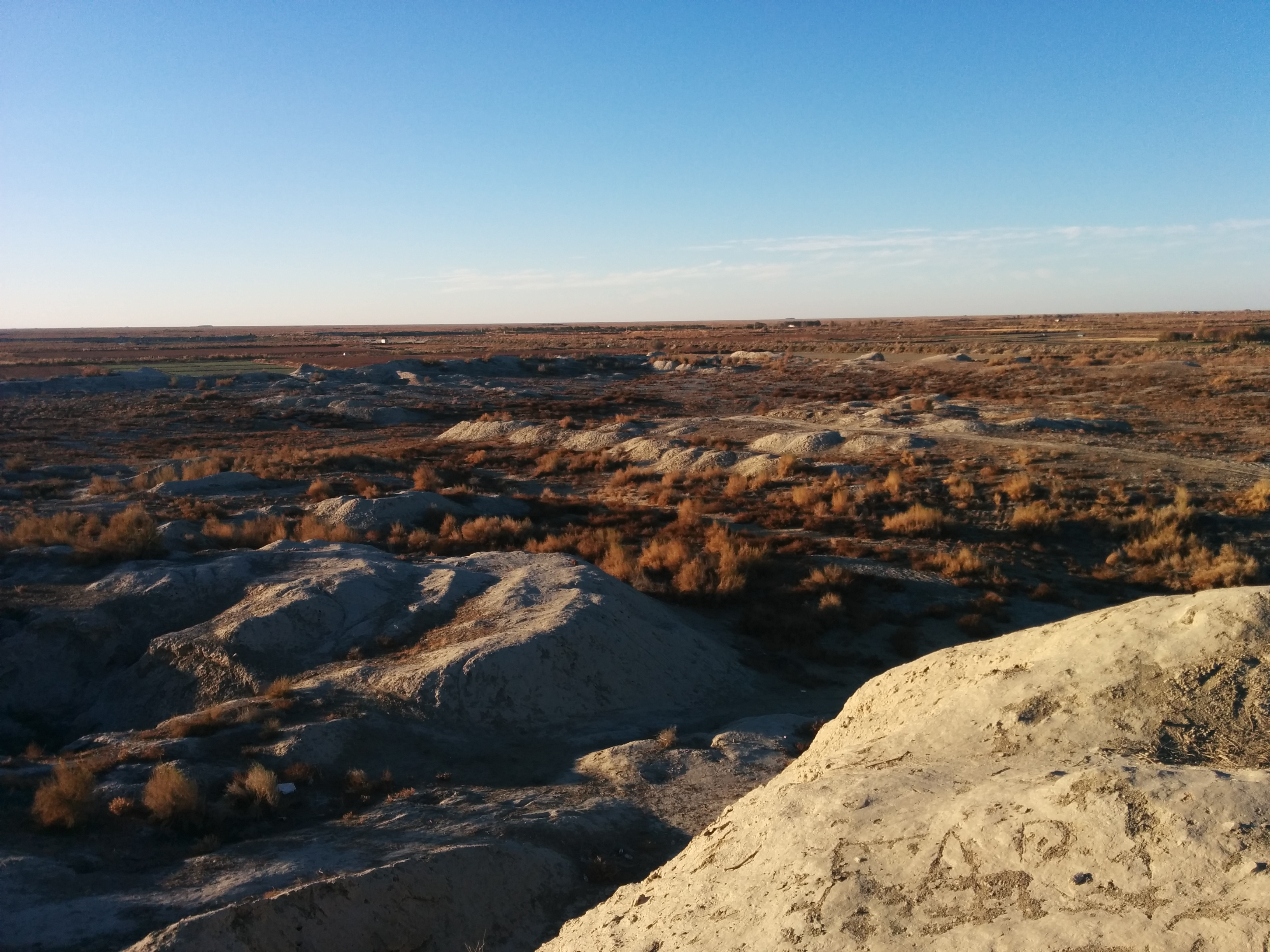 Varakhsha ruins